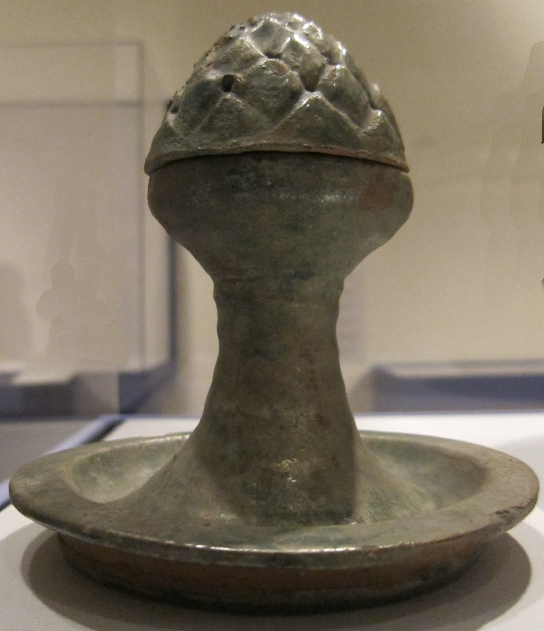 Censer with mountain-shaped cover, Han dynasty (206 BCE-220 CE), earthenware with glaze, Honolulu Museum of Art